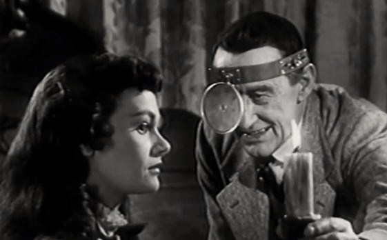 Gloria Talbott and Arthur Shields in Daughter of Dr. Jekyll (1957) - trailer (cropped screenshot).